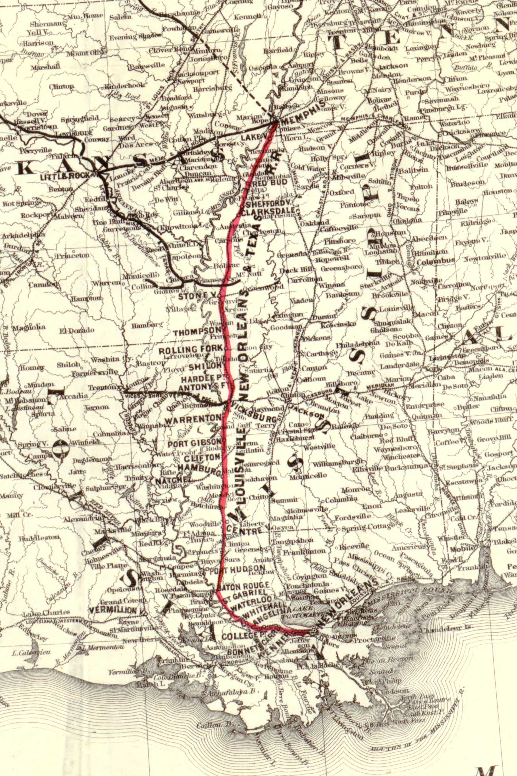 Map showing the route of the Louisville, New Orleans, and Texas Railroad and its connecting lines (detail).